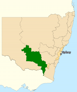 This image incorporates data that is: © Commonwealth of Australia (Australian Electoral Commission) 2009 Division of Riverina 2010